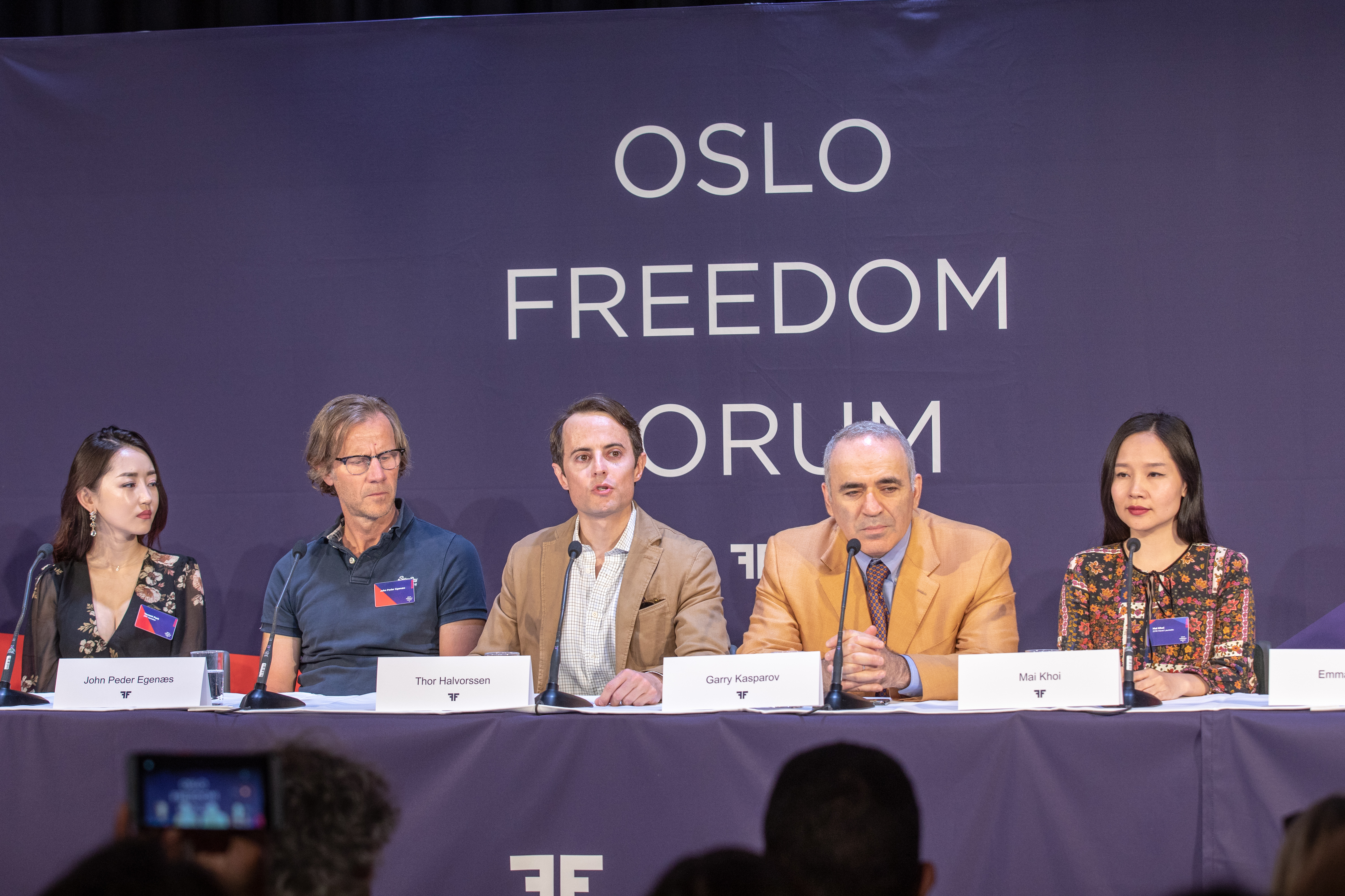 From the press conference of the 2018 Oslo Freedom Forum.